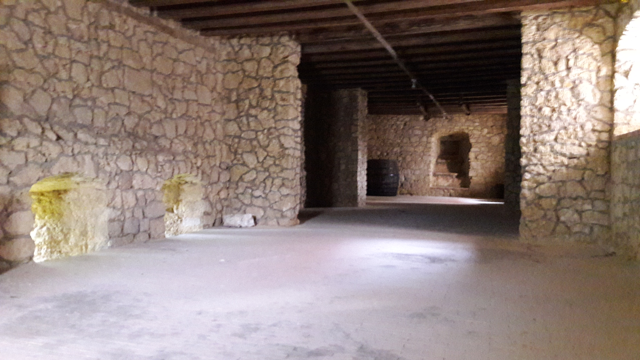 Kletni prostori, grad Raka